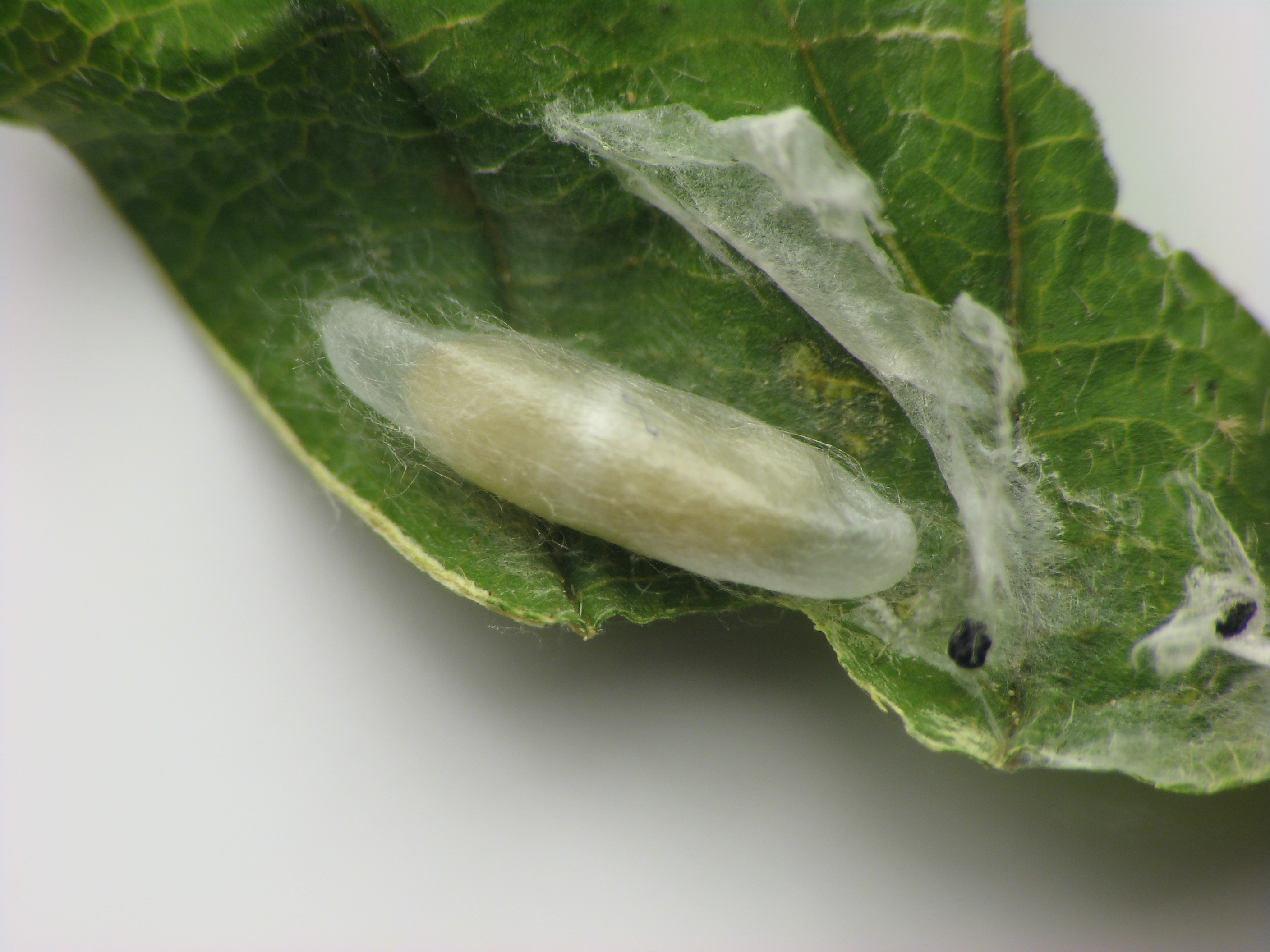 Ichneumon wasp, Phytodietus, pupa in cocoon. Size: 6 mm. Pennypack Restoration Trust, Montgomery County, Pennsylvania, USA.